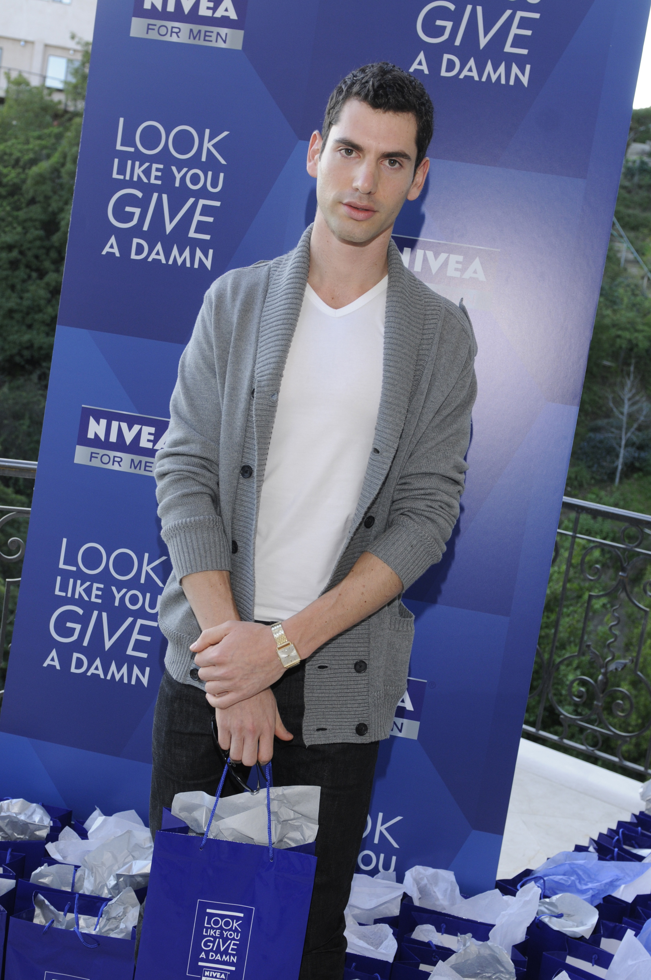 Yotam Solomon at the Nivea For Men Mansion for the 68th Annual Golden Globes Awards